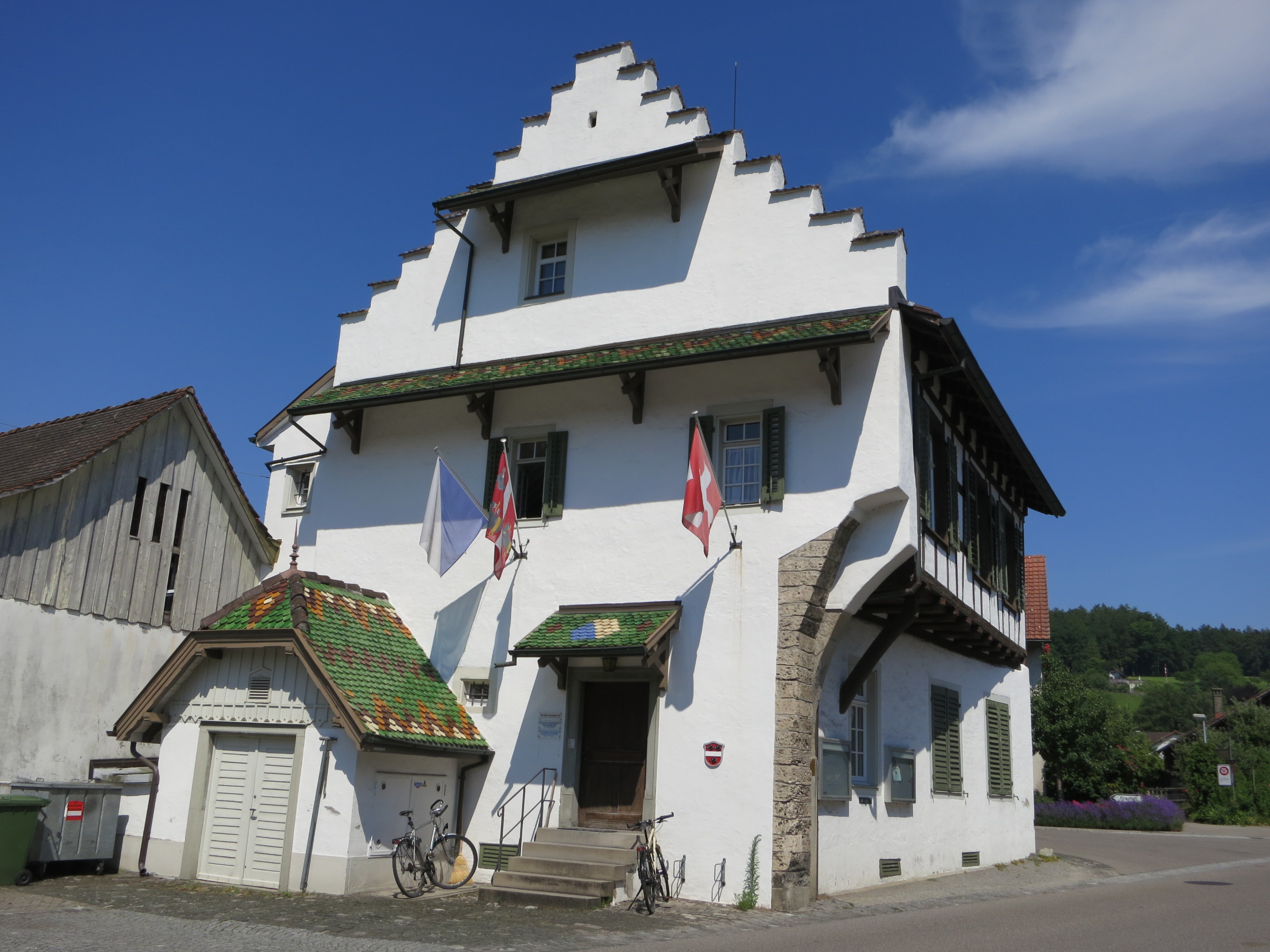 ehemaliges Gemeindehaus, Elgg ZH, Schweiz